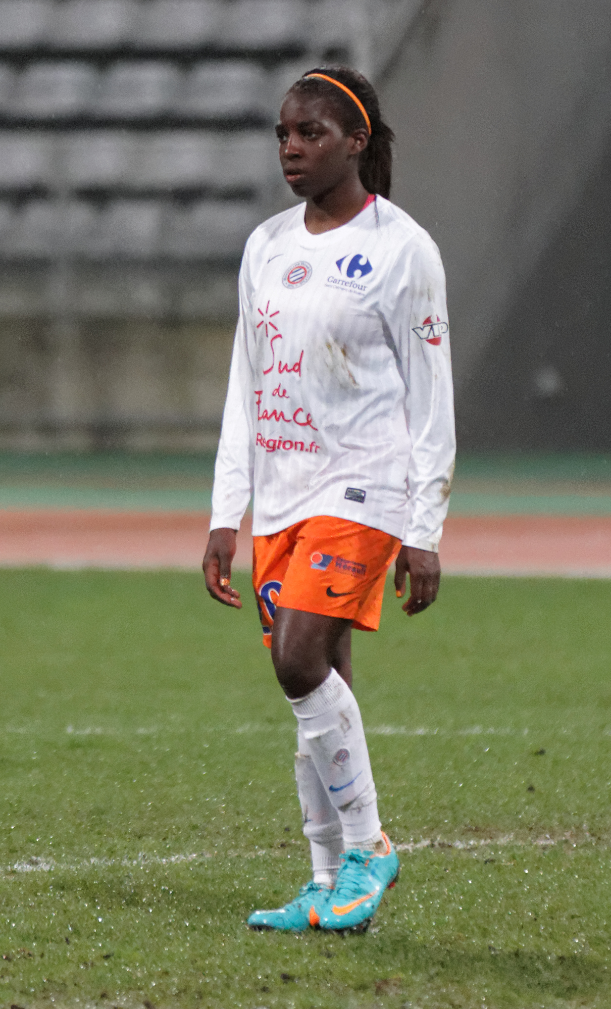 PSG-Montpellier, January 13th, 2013. Viviane Asseyi (Montepllier).